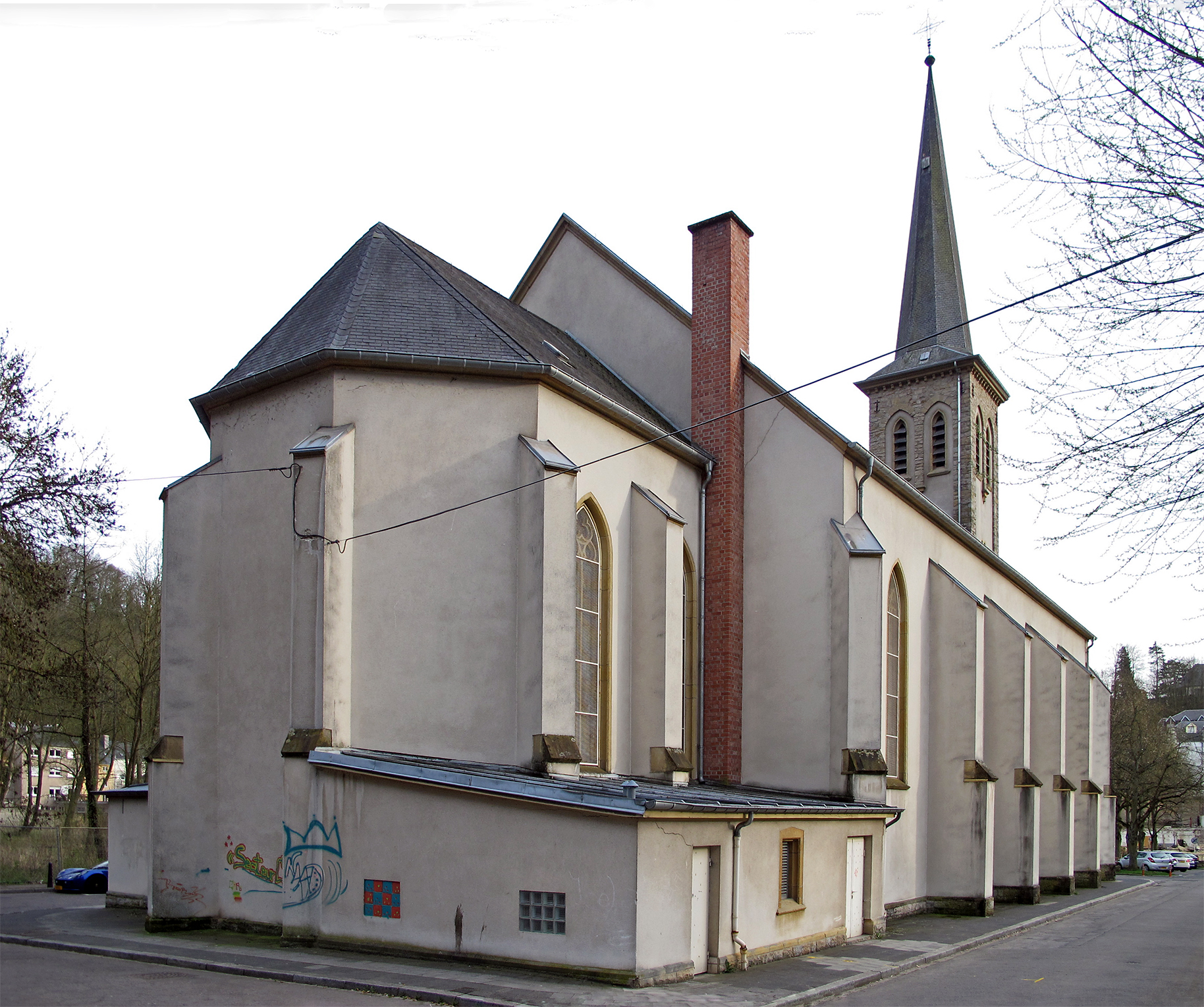 Church of Clausen, Luxembourg-City